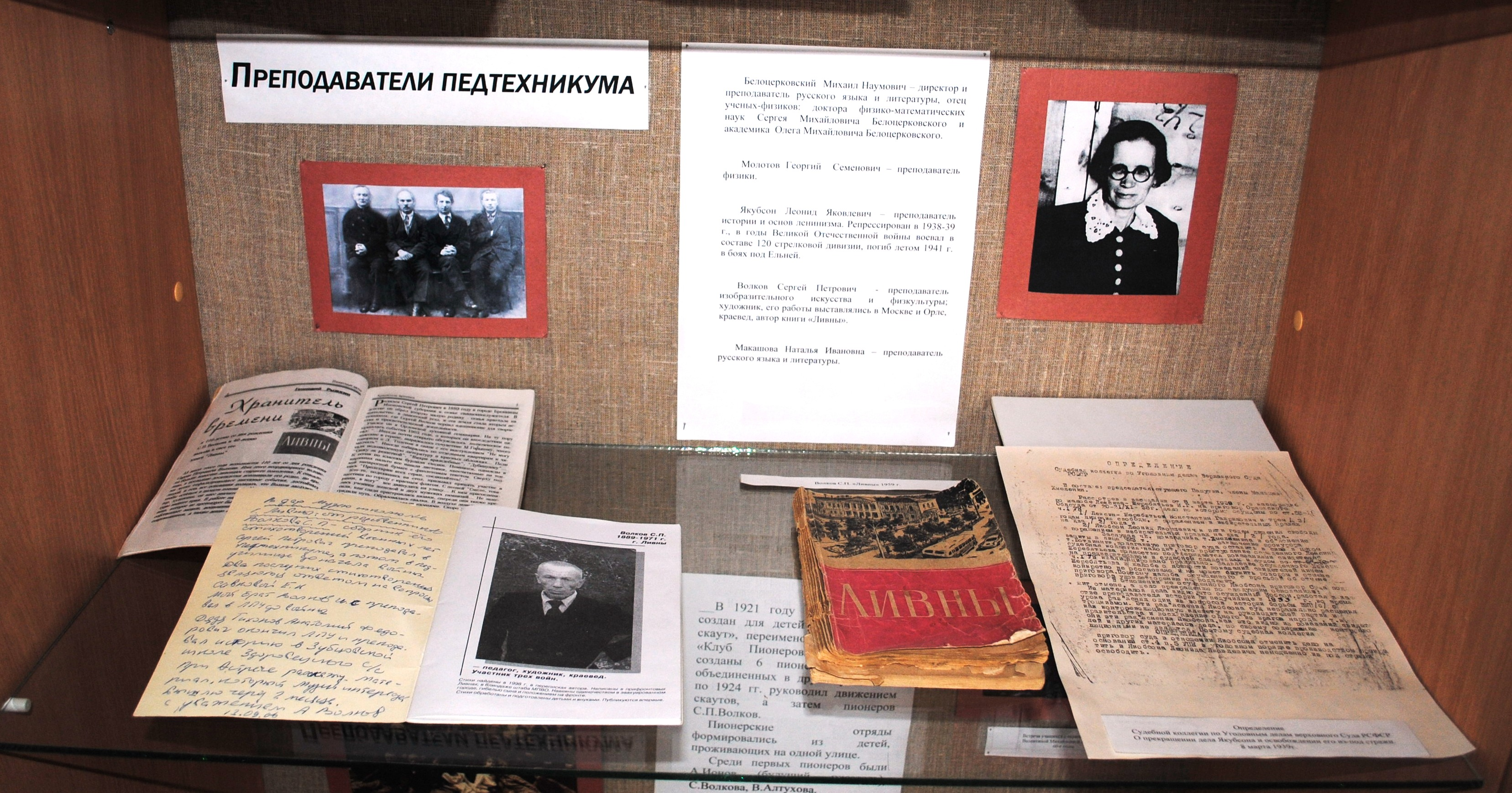 History Museum of Livny